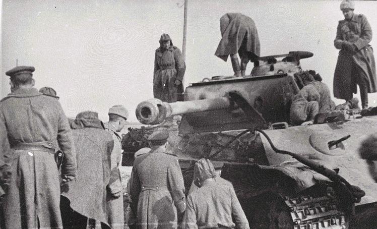 Pzkpfw V Panther near the town of Voznesensk, Ukraine in 1944.